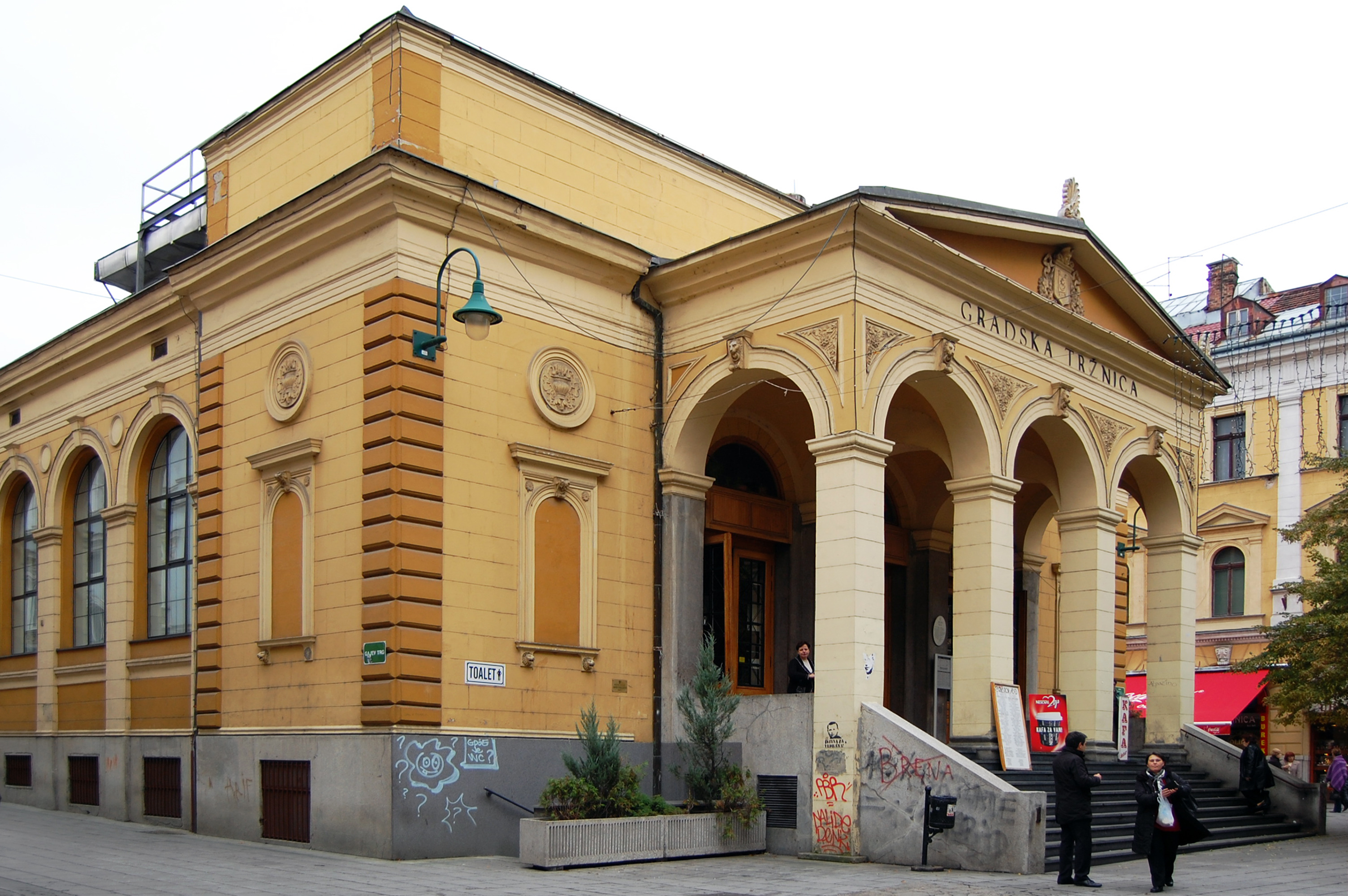 Old market place in downtown Sarajevo